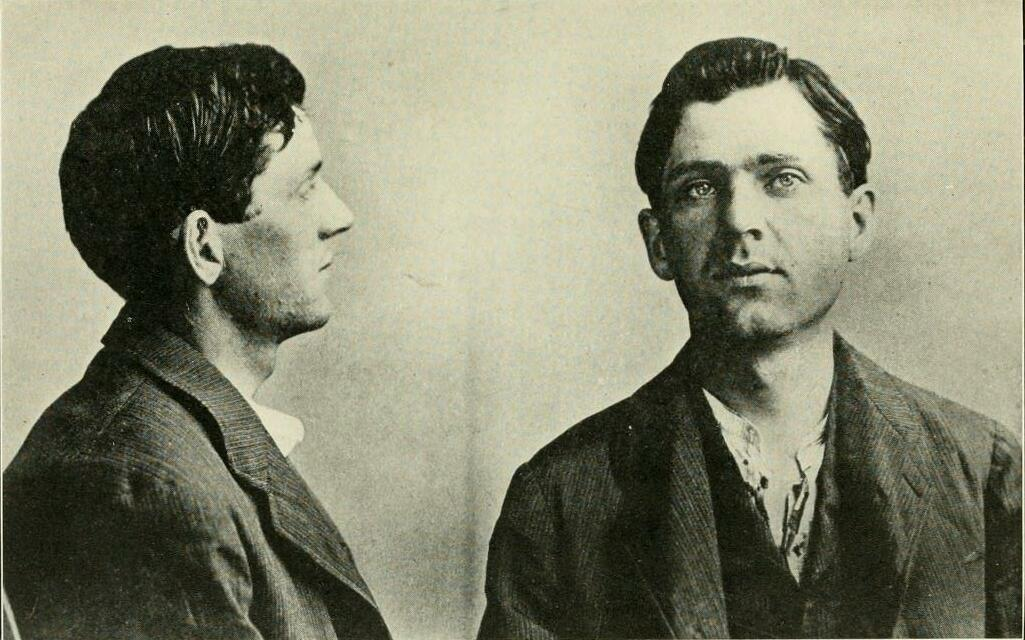 Mugshots of Leon Czolgosz from after his arrest for the assassination of US President William McKinley in 1901.